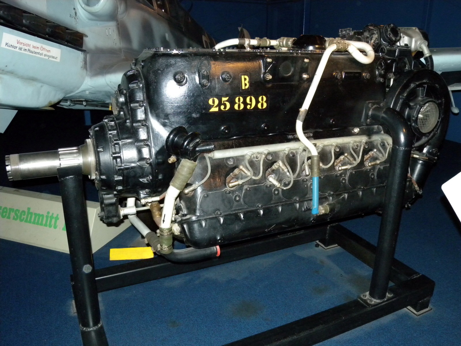 Daimler-Benz DB 605 displayed at National Air and Space Museum in Washington, DC.